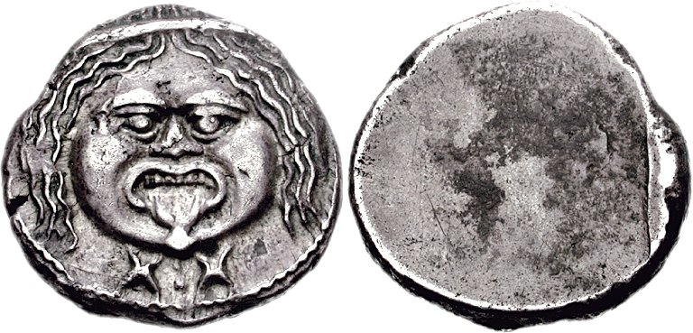 Italy,Etruria, Populonia. After 211 BC. AR 20 Asses (8.30 g). Facing Metus wearing diadem; X:X (mark of value) below Blank. Vecchi II 30 corr. (same obv. die); HN Italy 152; SNG Fitzwilliam 61 (same obv. die); McClean 130 (same obv. die). Near EF, toned. Well centered and struck for issue. "From the David Herman Collection.